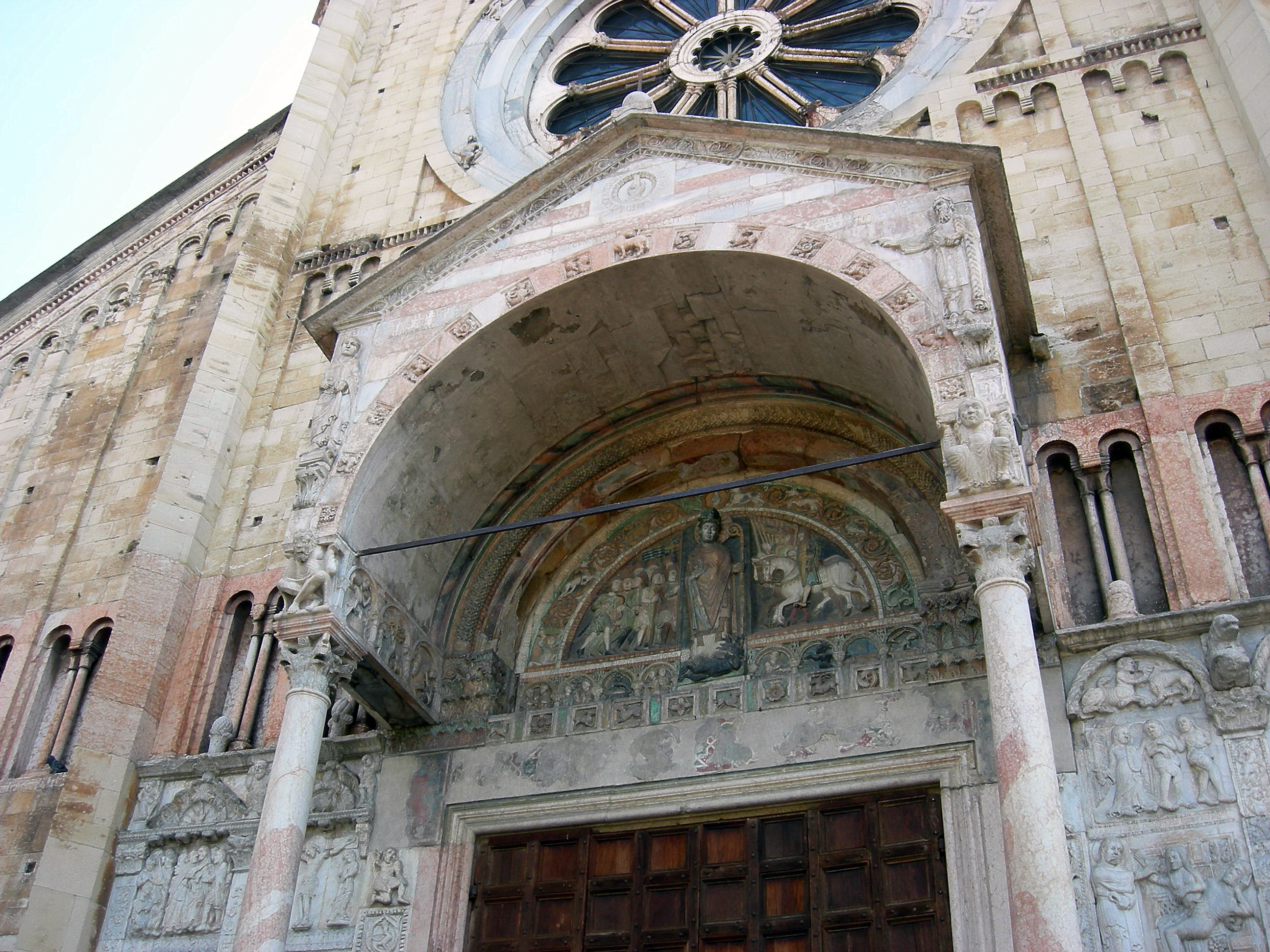 San Zeno - Verona